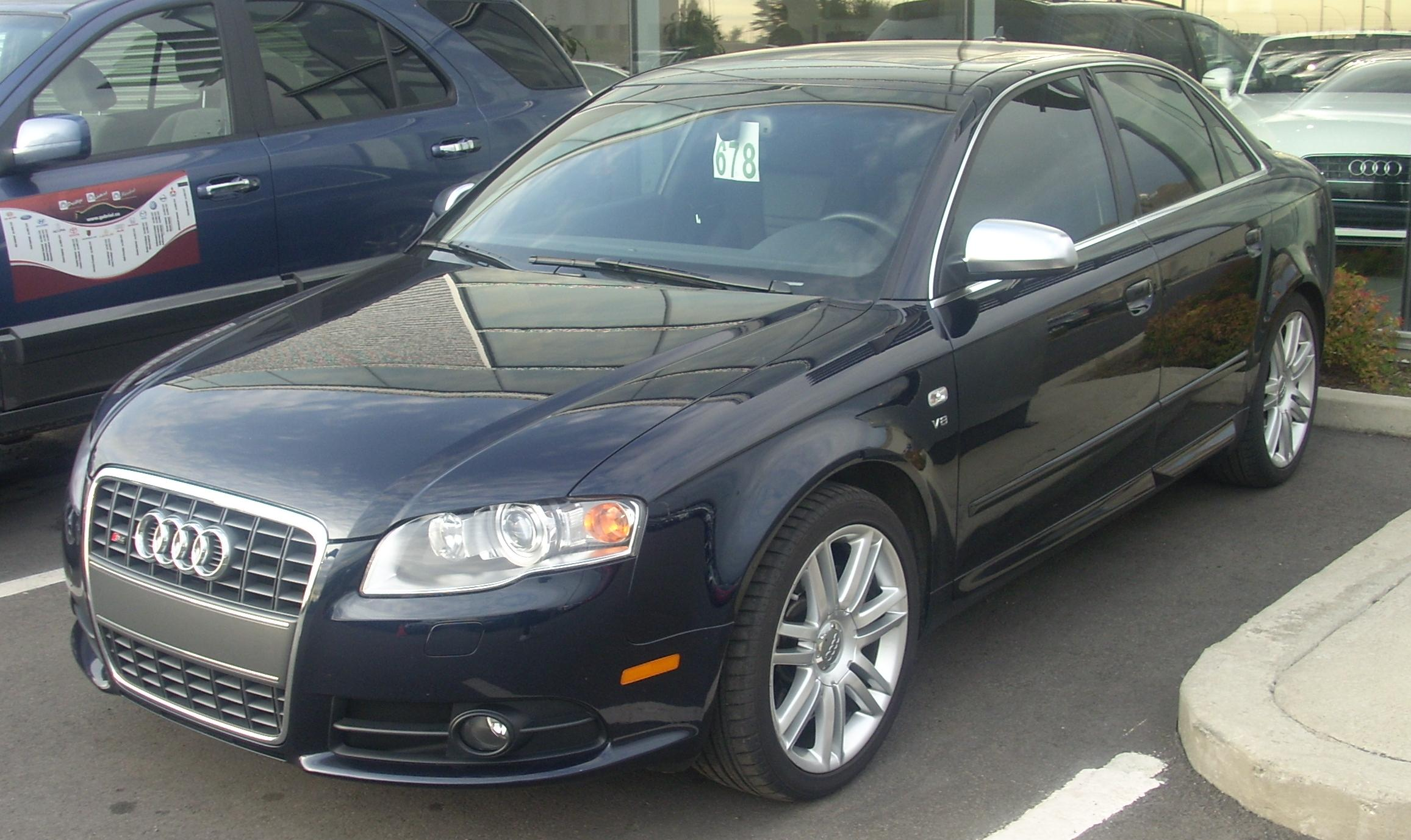 2005-2008 Audi B7 S4 photographed in Montreal, Quebec, Canada.